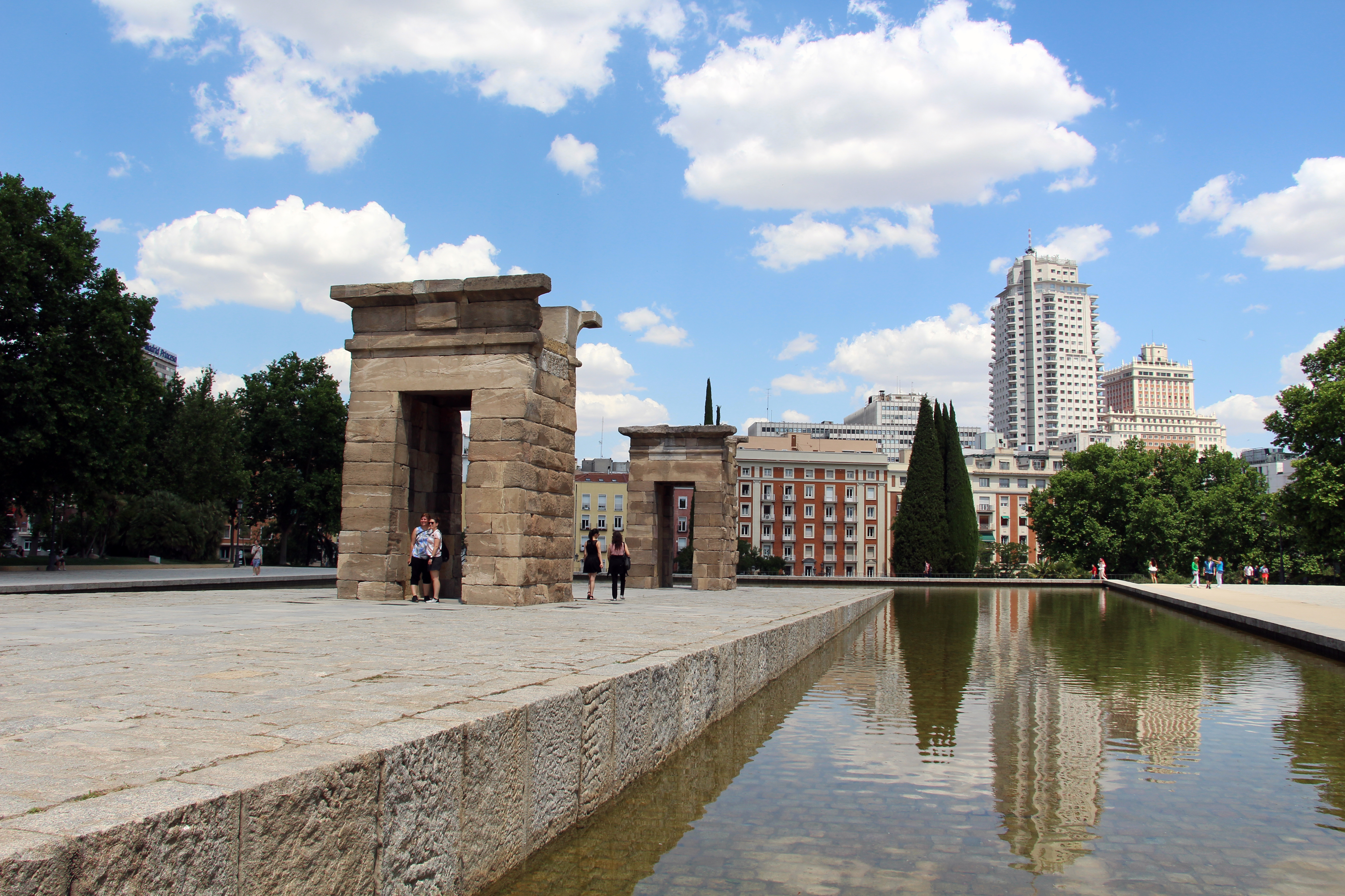 Calle Ferraz The Temple of Debod is an ancient Egyptian temple that was dismantled and rebuilt at the Parque del Oeste in Madrid.